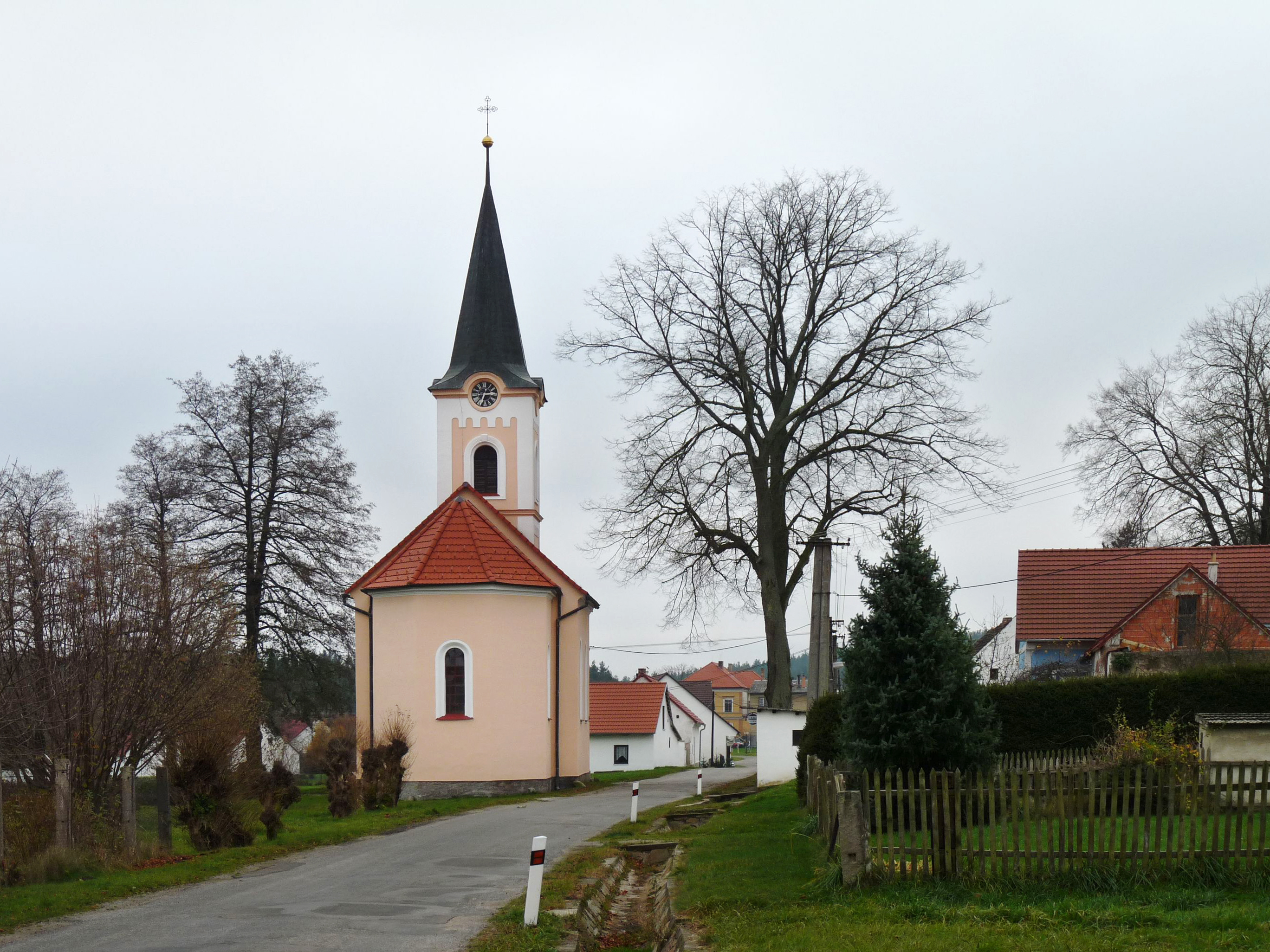 Saint Anne Chapel in the village of Sedlo, part of the municipality of Číměř, Jindřichův Hradec District, South Bohemian Region, Czech Republic.